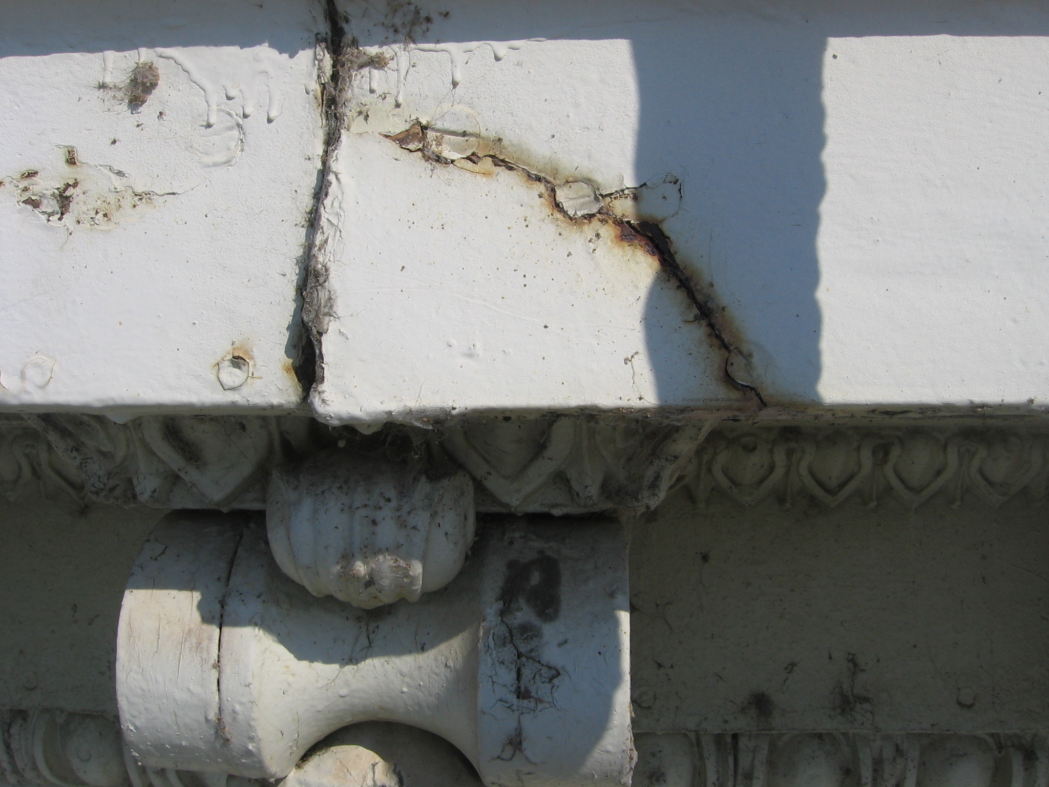 Cracking and rusting of cast iron at tholos level of the Dome. For more information visit